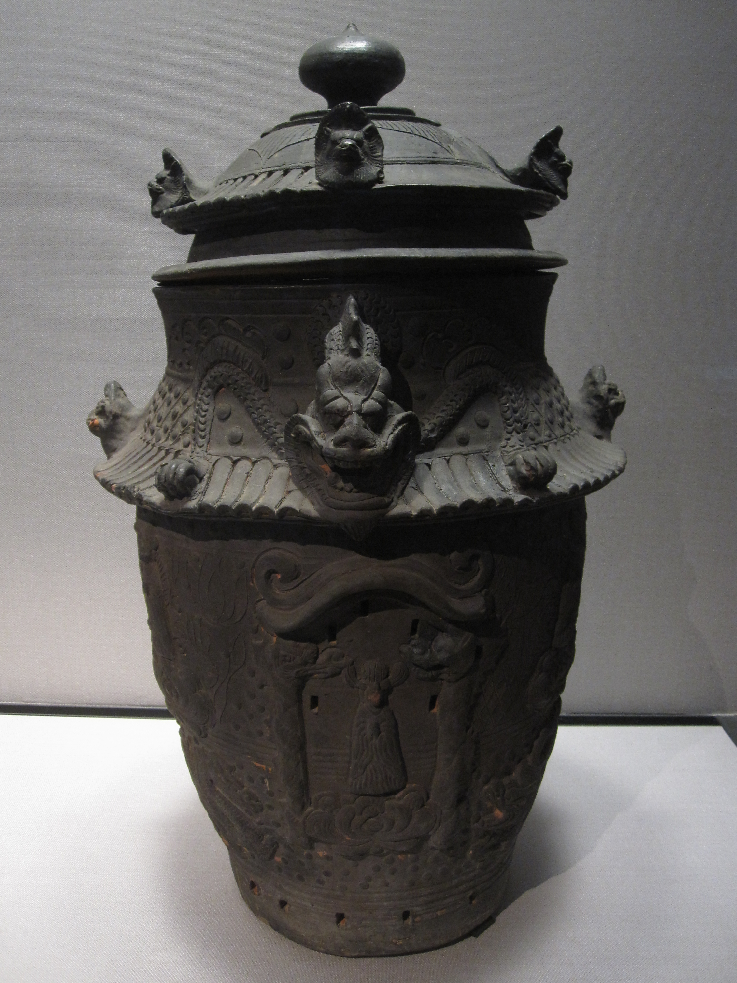 Tsuboya ware cinerary urn (Zushigame) made in 19th-Ryukyu kingdom, the collection of Tokyo National Museum.